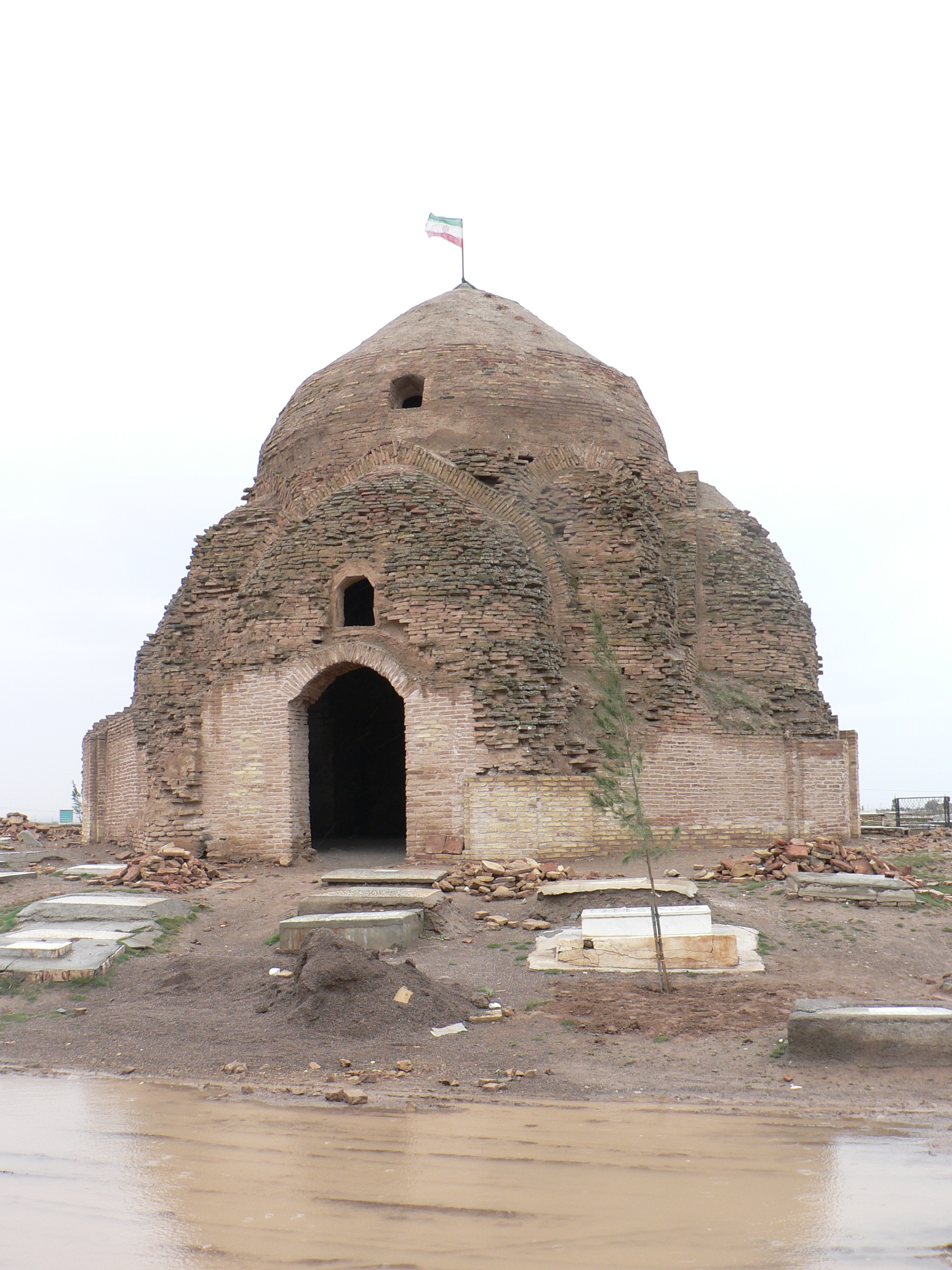 Mazaare Shahmir in Neyshabur